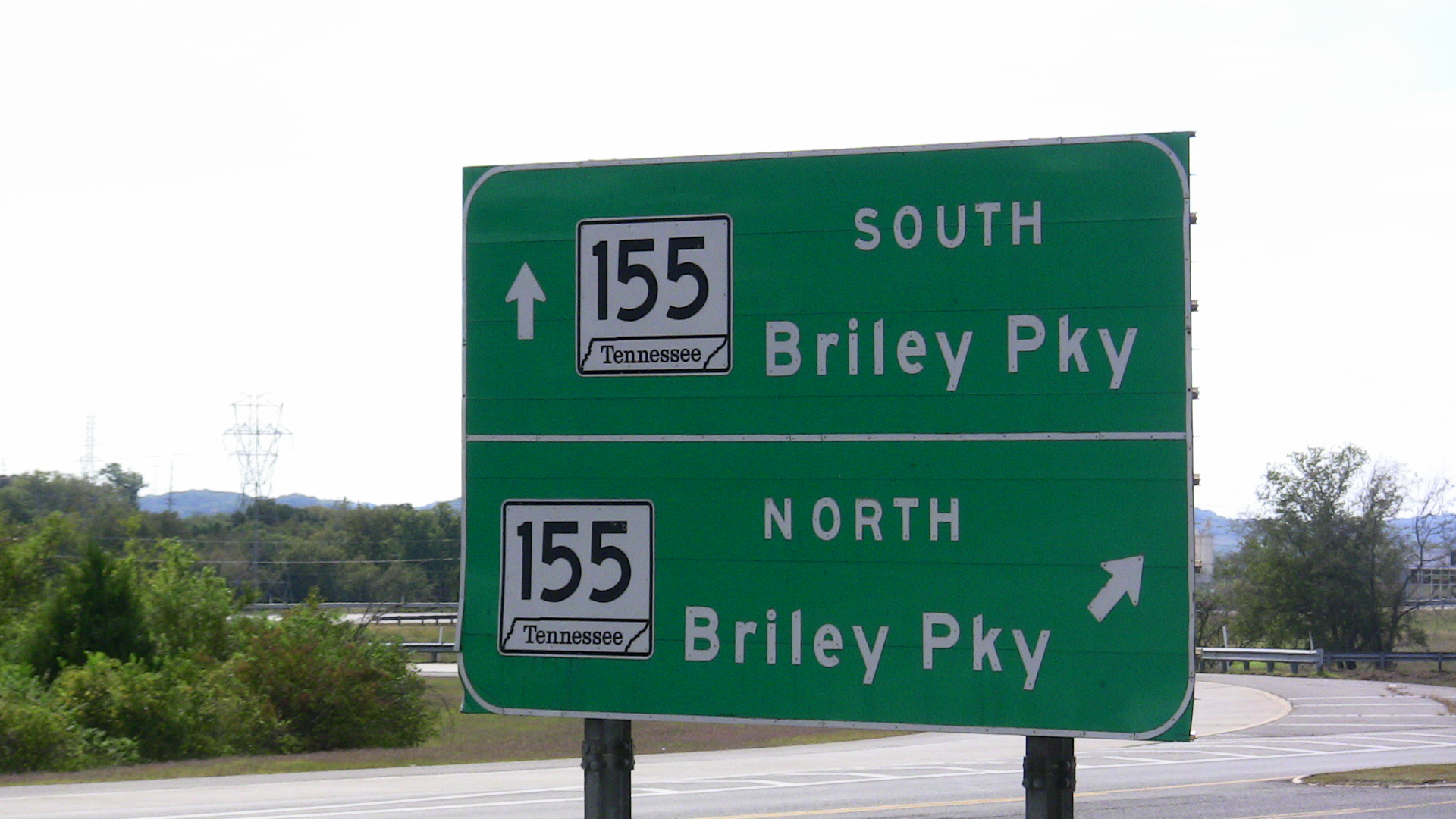 This is a sign displaying directions for Briley Parkway (TN 155) from Centennial Boulevard, which is west of Nashville. This sign exists just east of Exit 26, and this particular view was taken from a Pilot gas station. Signs such as these are rather typical when one is approaching the freeway from a surface street.